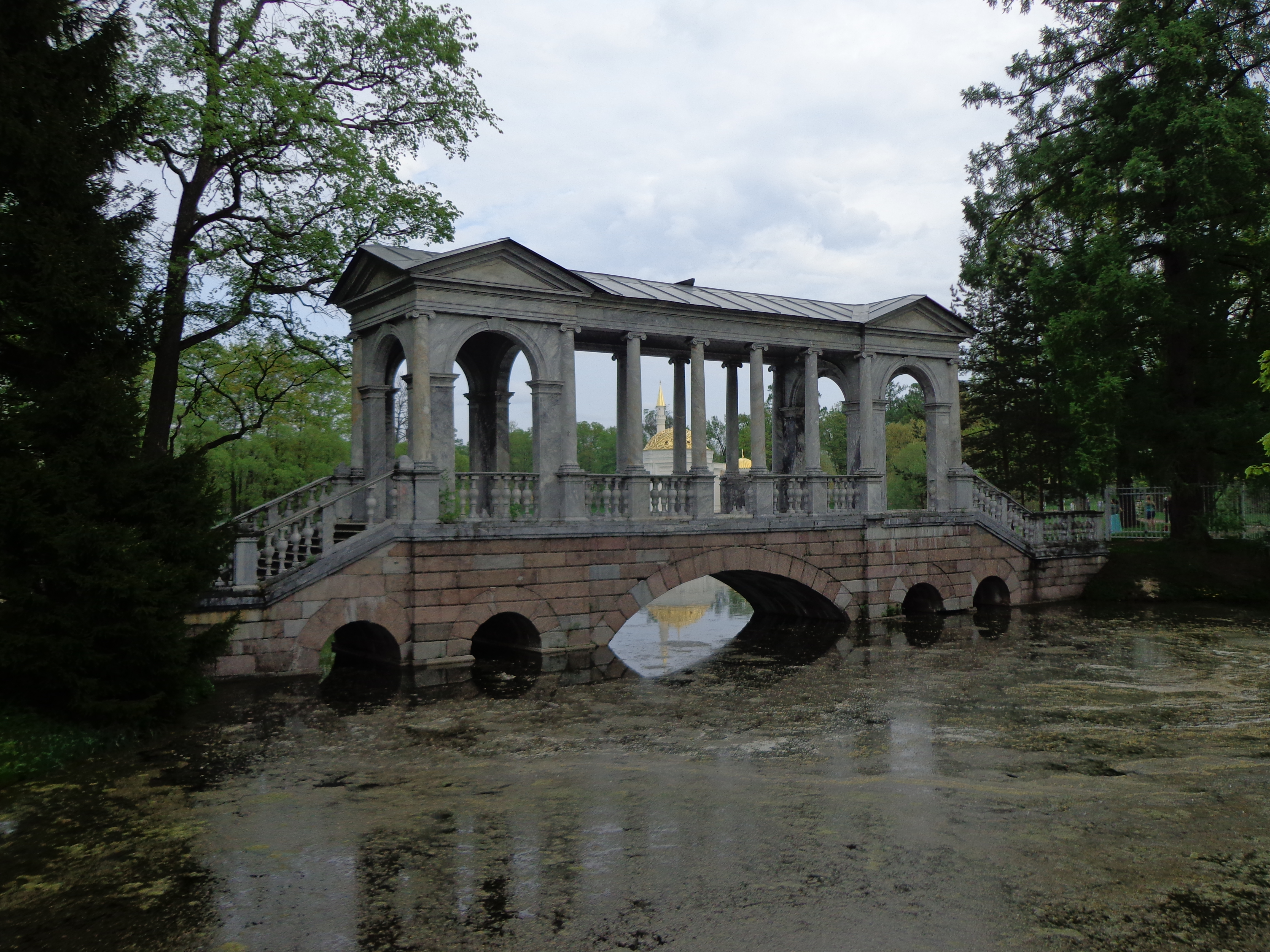 Palladian Bridge, Catherine Park, Pushkin (Tsarskoye Selo)